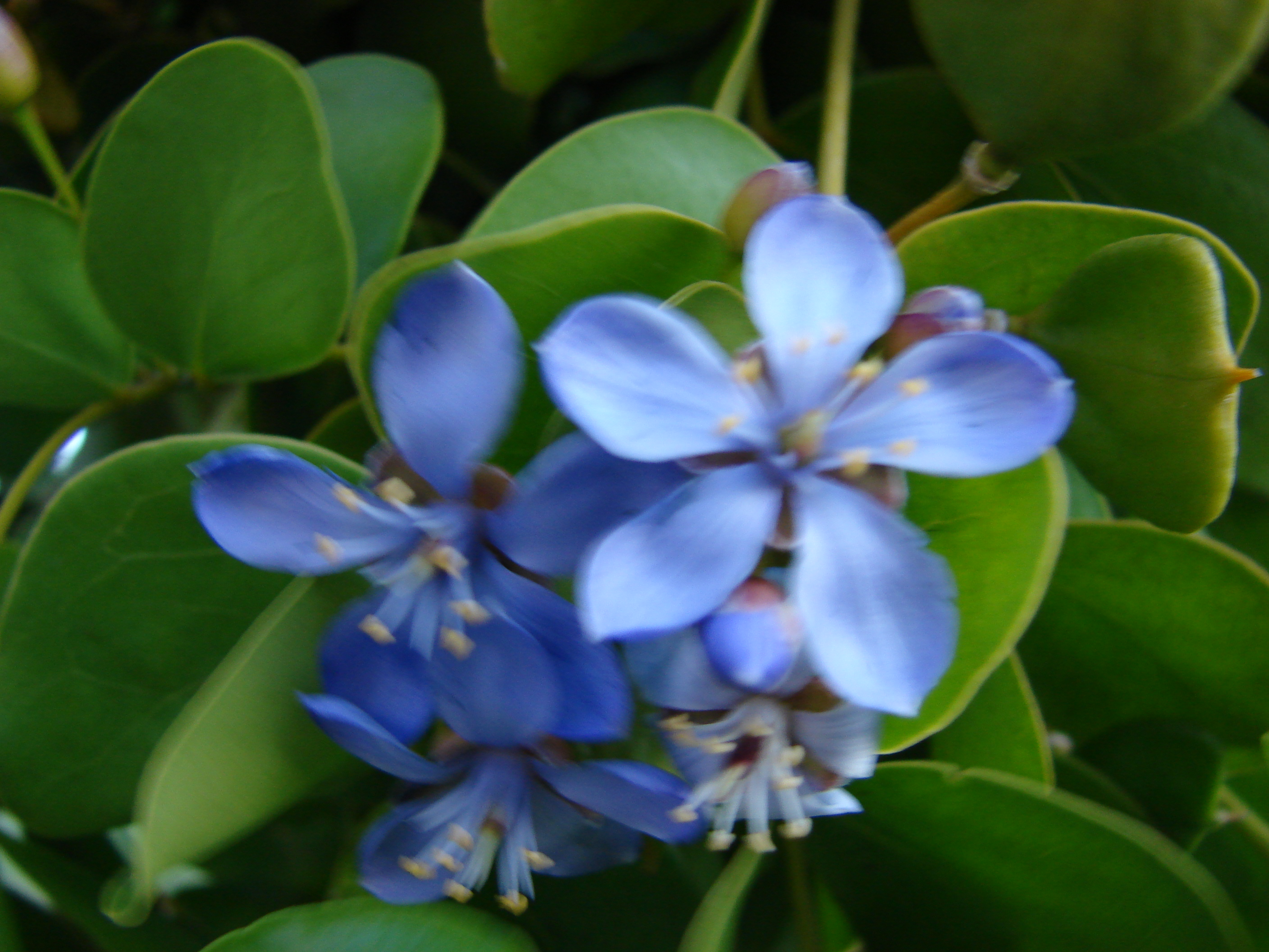 Guaiacum officinale (leaves and flowers). Location: Oahu, Ala Moana Beach Park